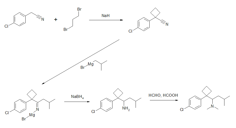 Synthesis of Sibutramine